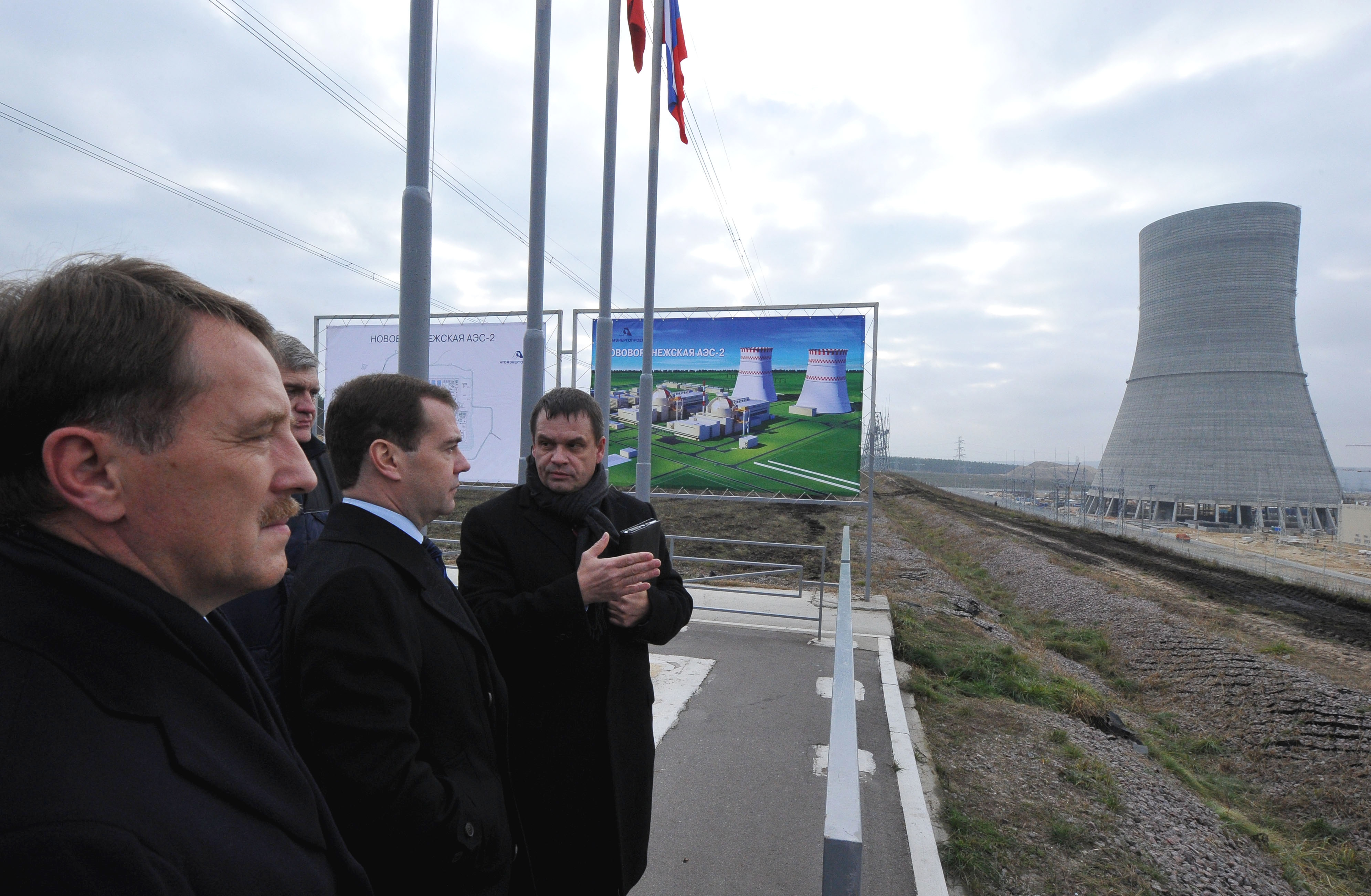 Novovoronezh Nuclear Power Plant II construction, November 20, 2012.